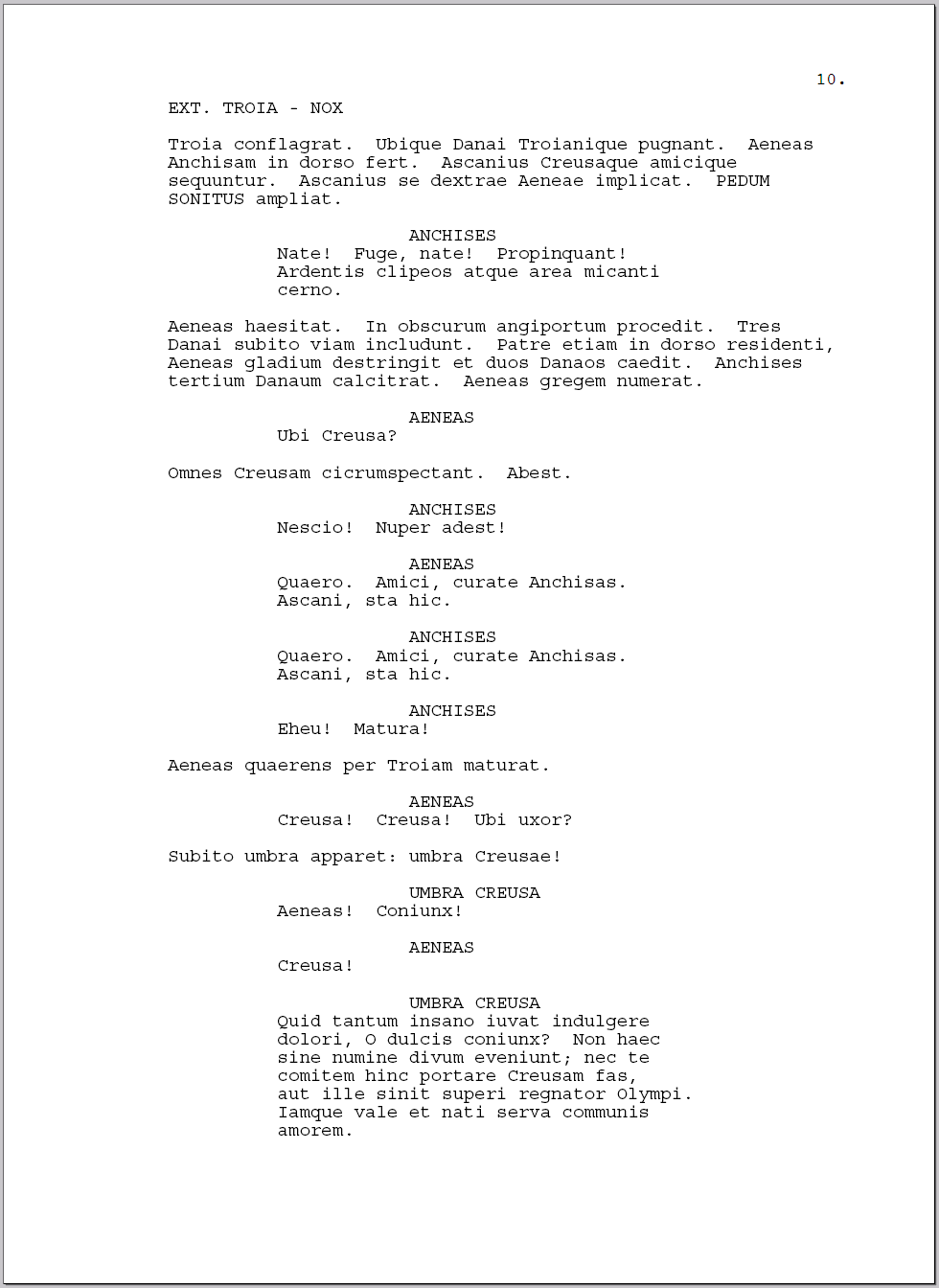 A page of a screenplay I wrote in Latin based on The Aeneid to display "correct screenwriting format".